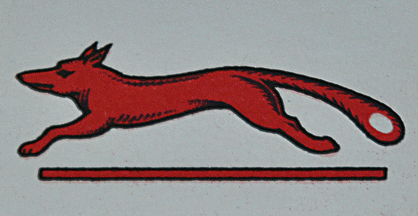 Formation sign of the British Fifth Army, first pattern, in the First World War